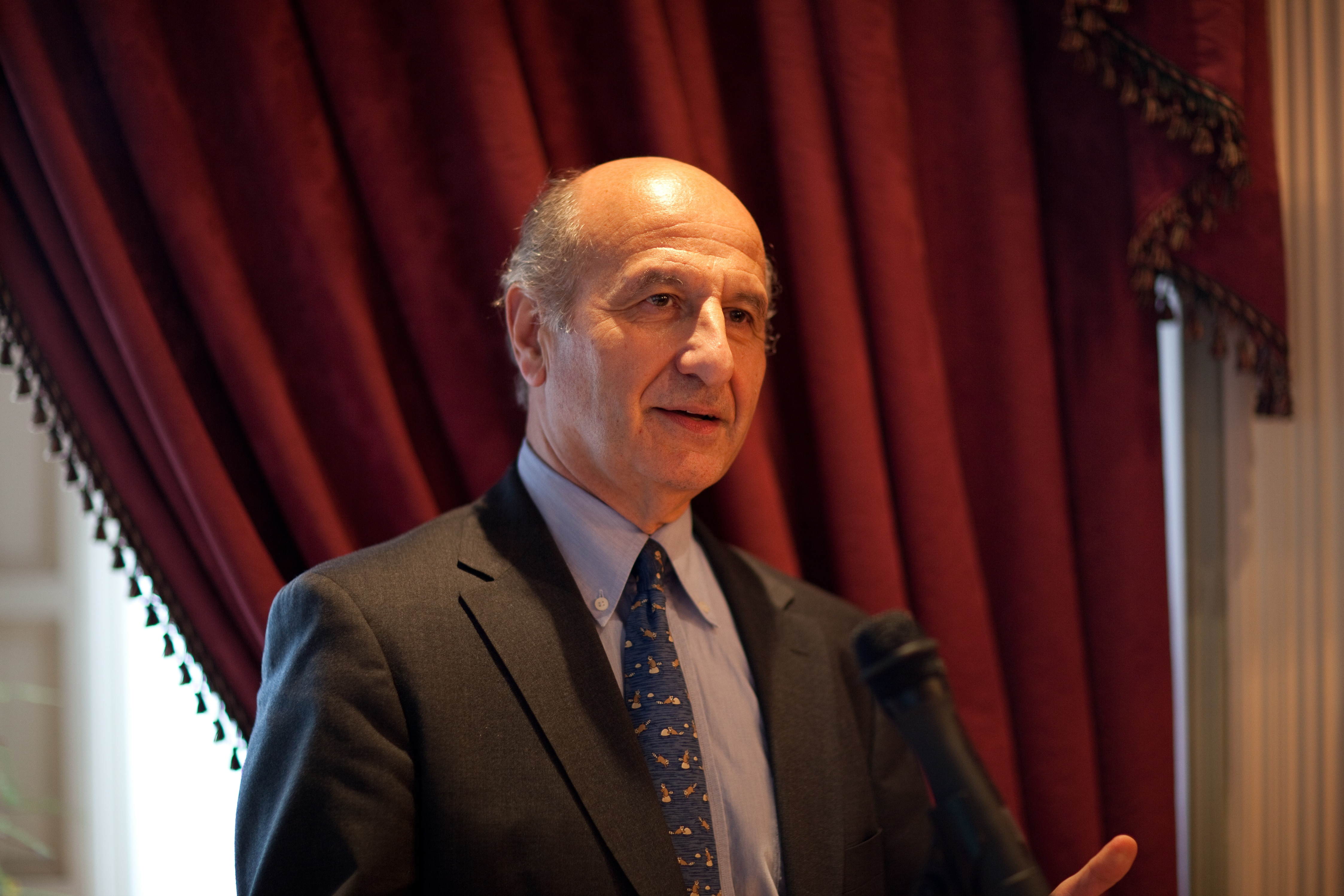 Hurbert Sacy at conference in HK